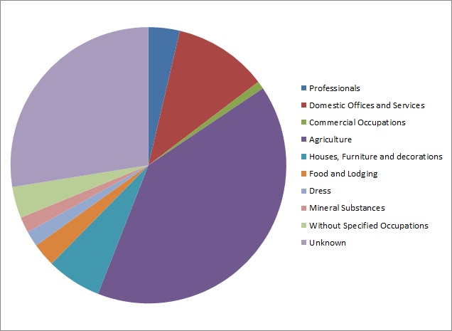 pie chart of occupations of people in Swilland in 1811